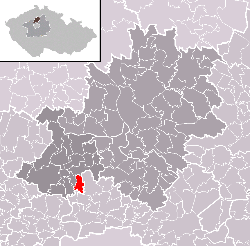 Location of Postřižín municipality within Mělník District and administrative area of Kralupy nad Vltavou as a Municipality with Extended Competence.